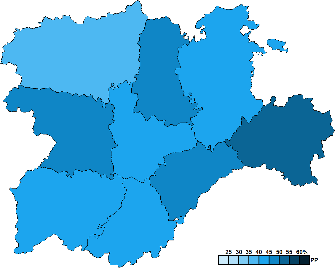 Provincial results for the 1991 Castilian-Leonese regional election.